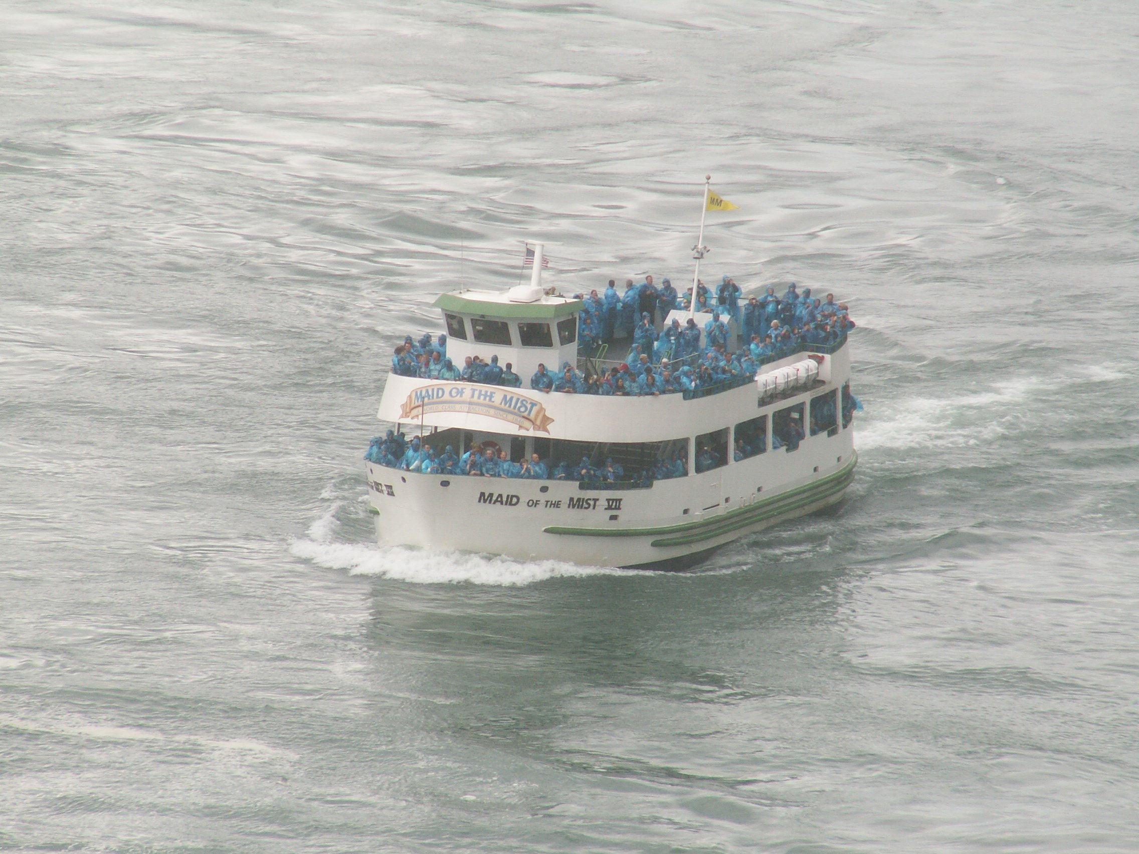 Maid of the Mist VII